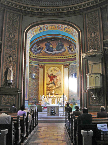 St. Ladislav's Church in Bratislava, Slovakia